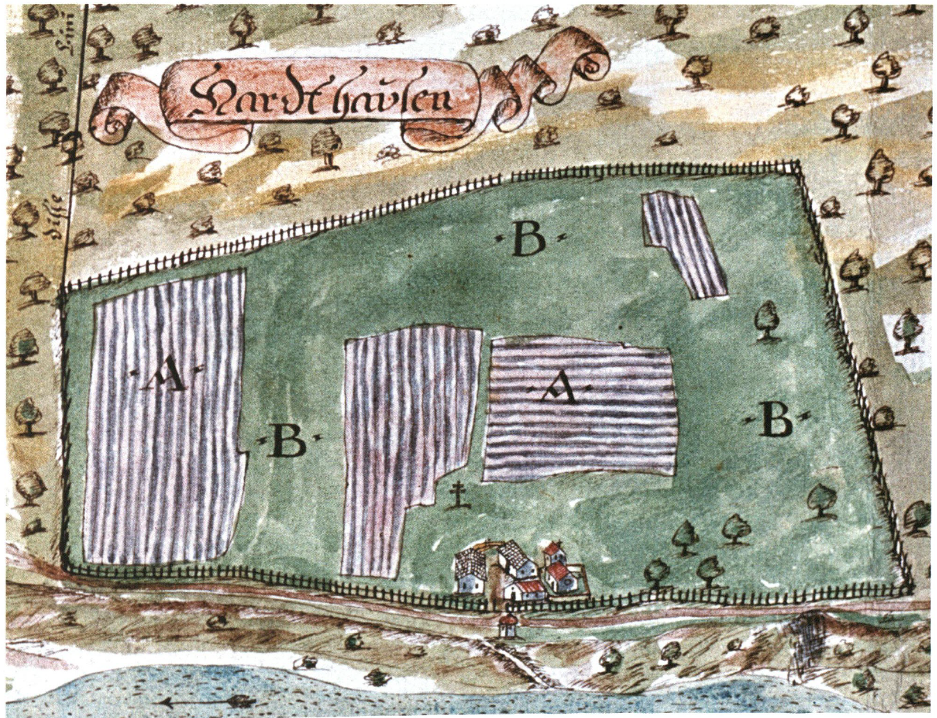 Map of Harthausen, called Menterschwaige since 1807 in Munich, Germany. Made by Mattias Paur in 1700